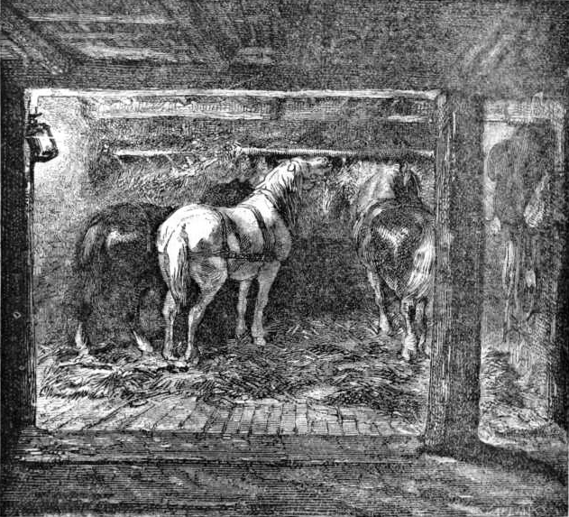 Illustration from book: Stable in a mine